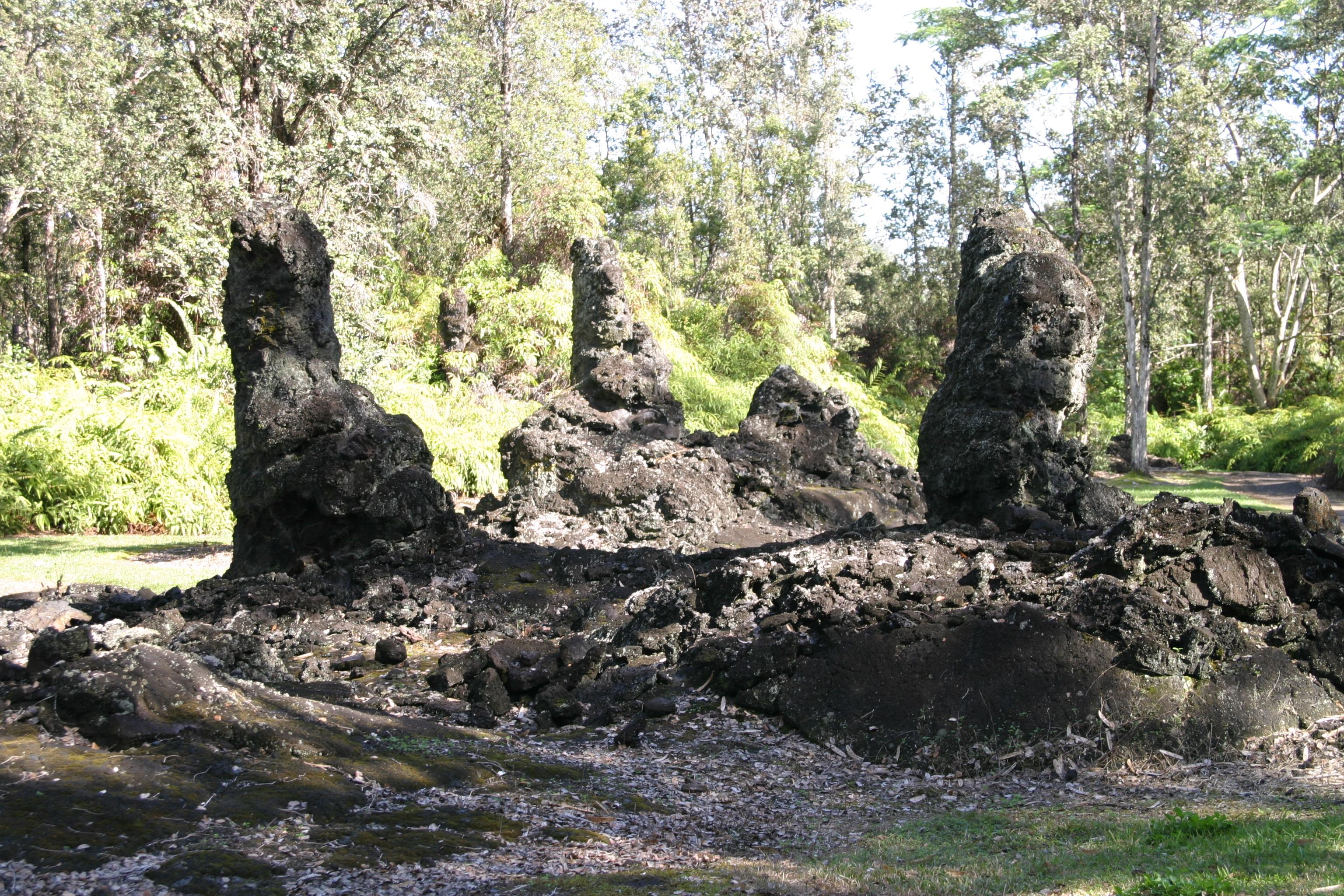 Lava Tree State Monument, Big Island, Hawaii. Taken 1/11/04 by Pretzelpaws with a Canon 10D camera. Recompressed 1/7/05 using the Gimp.